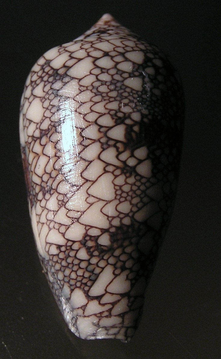 Conus canonicus Hwass in Bruguière, 1792 , a cone snail in the family Conidae; Seychelles